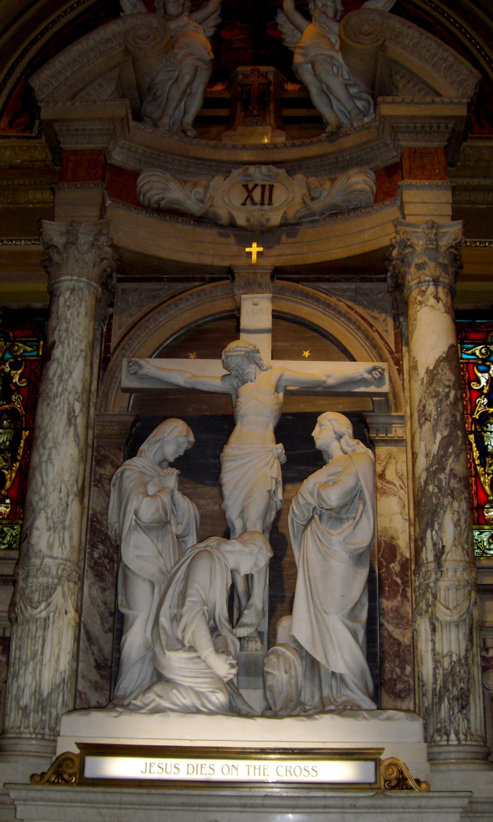 One of the 14 lifesize marble Stations of the Cross statues inside Our Lady of Victory Basilica in Lackawanna, New York.